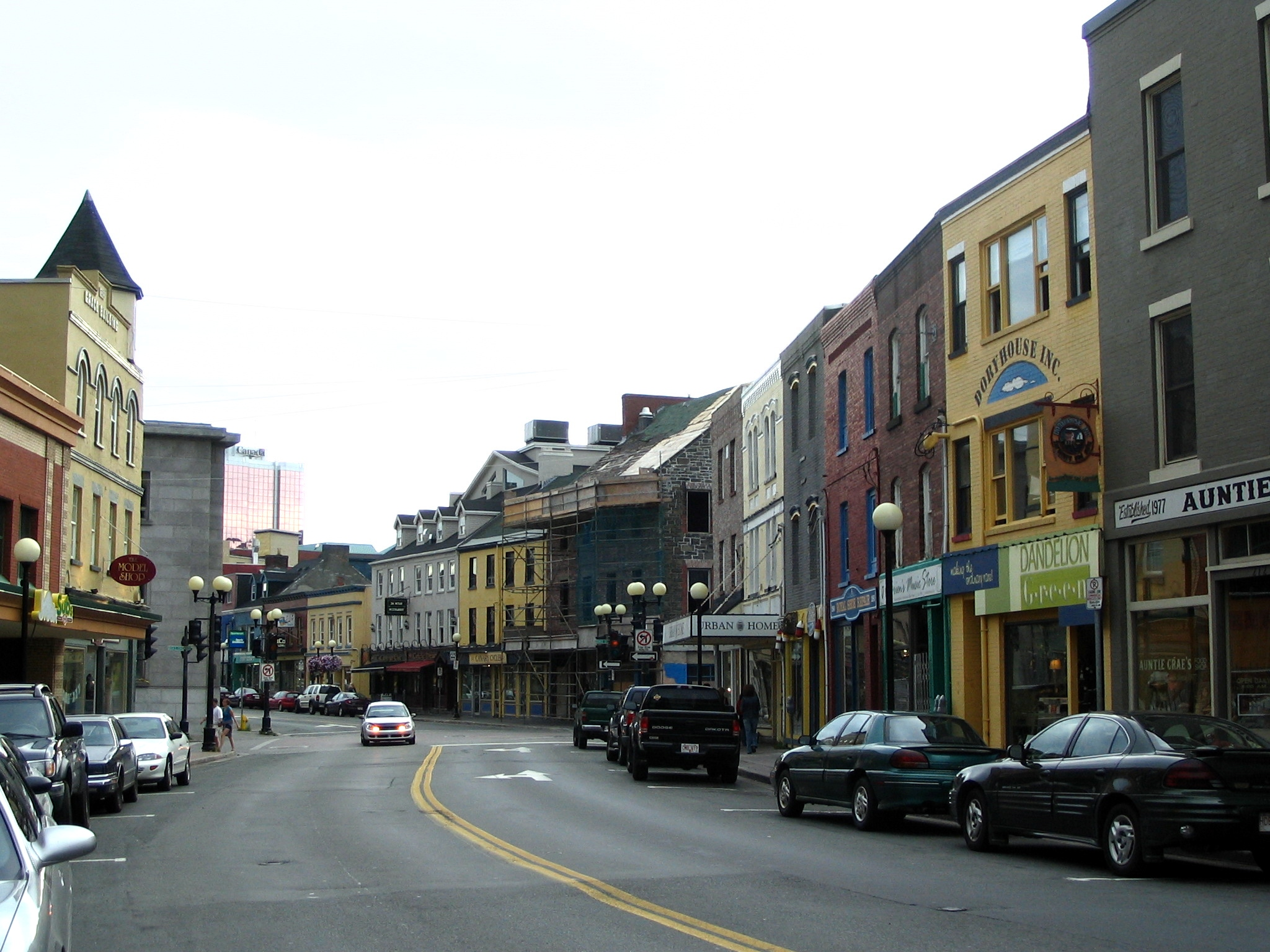 Water Street, city center of St. John's, Newfoundland